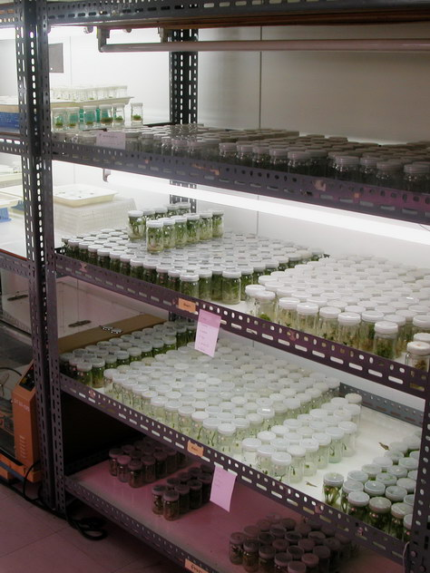 Facility SCPL